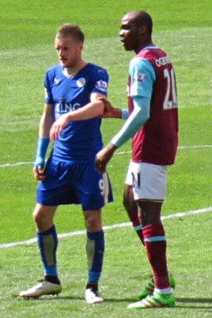 Jamie Vardy of Leicester City (left) and Angelo Ogbonna of West Ham Utd (right) during a Premier League game at the Kingpower Stadium, Leicester.